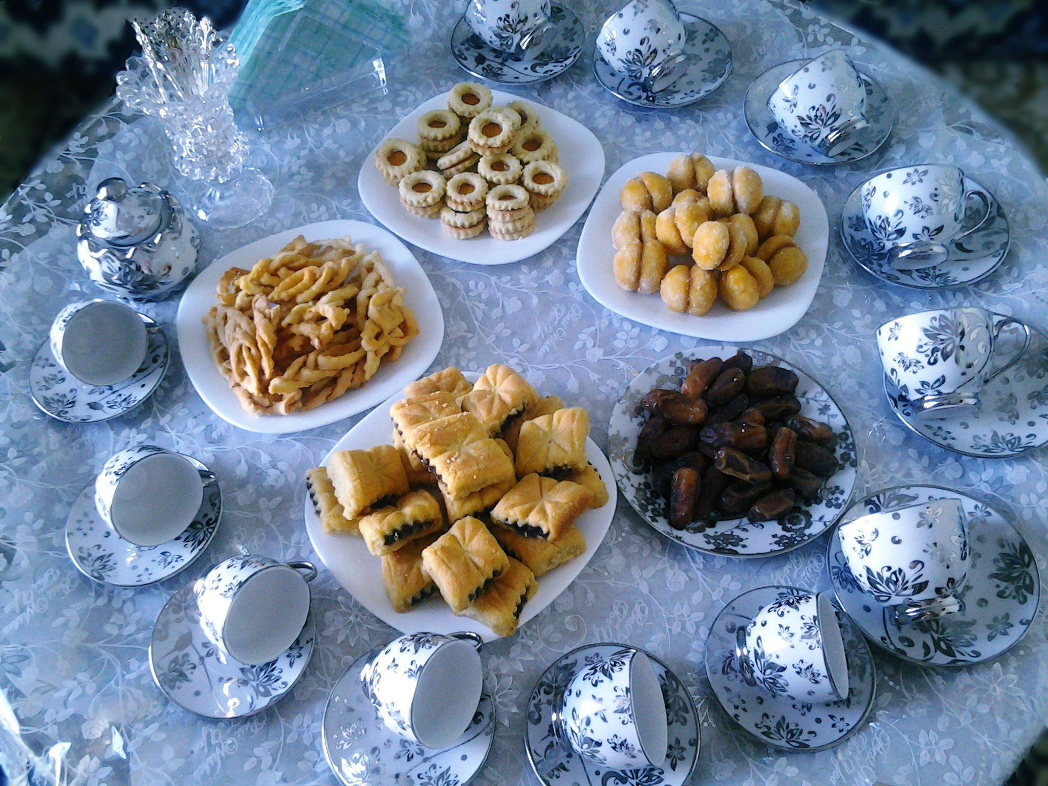 This is an image of food from Algeria